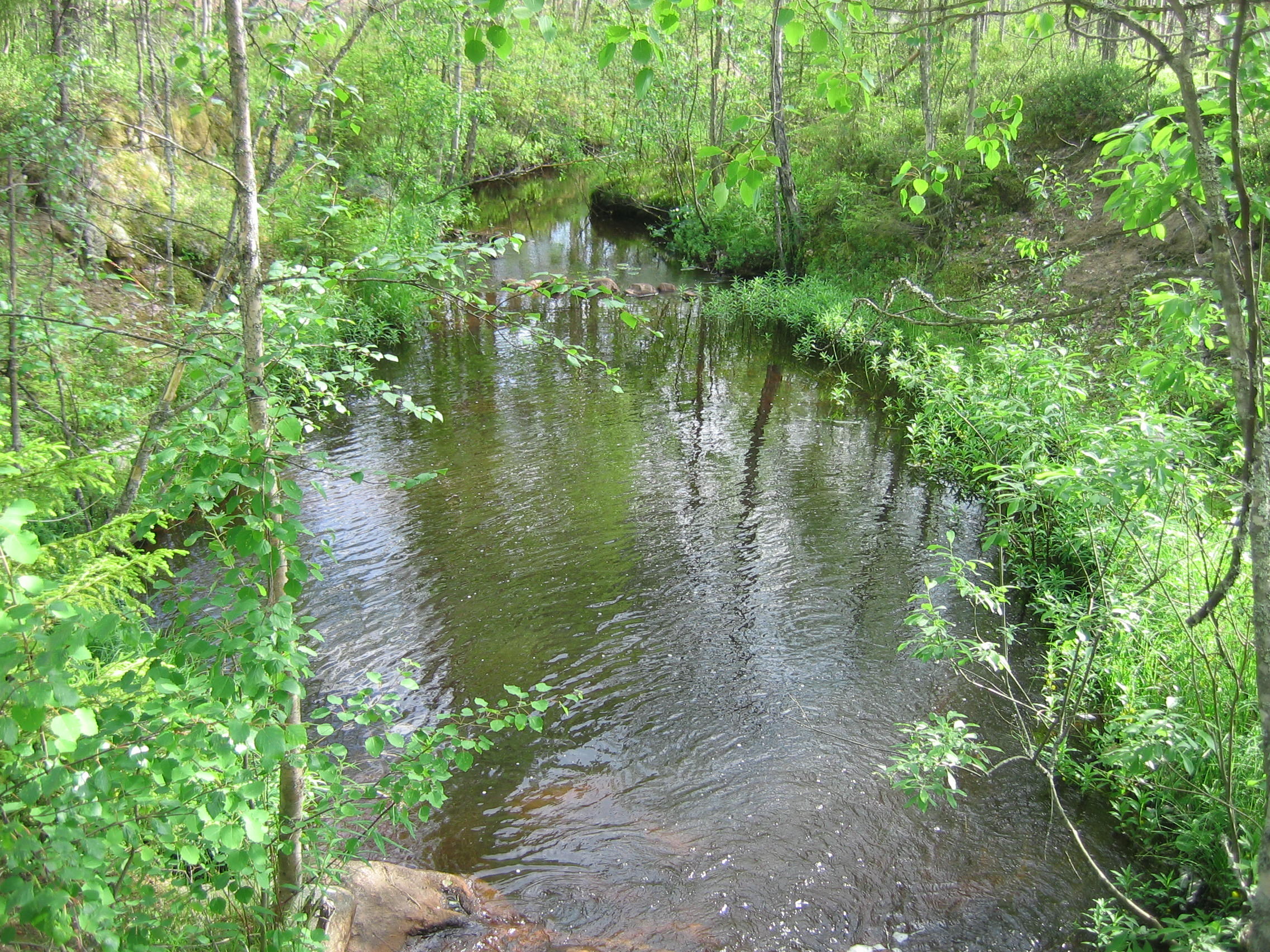 The small creek Pontemanoja in Utajärvi, Finland.